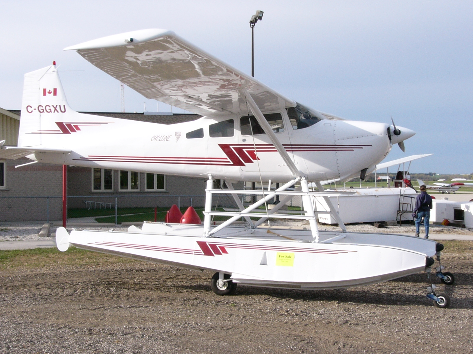 A St-Just Aviation Super-Cyclone at the Hanover, Ontario, Canada, COPA Rust Remover